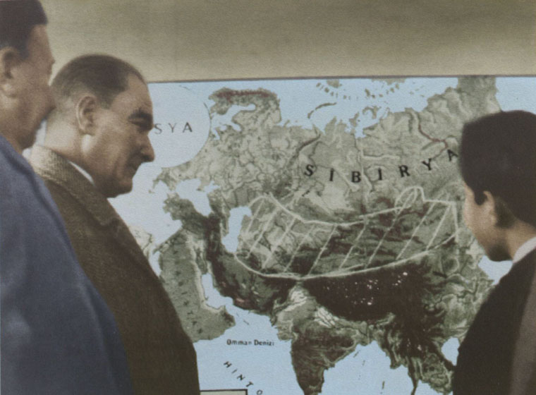 Kemal Atatürk (or alternatively written as Kamâl Atatürk, Mustafa Kemal Pasha until 1934, commonly referred to as Mustafa Kemal Atatürk; 1881 – 10 November 1938) was a Turkish field marshal, revolutionary statesman, author, and the founding father of the Republic of Turkey, serving as its first President from 1923 until his death in 1938. He undertook sweeping progressive reforms, which modernized Turkey into a secular, industrial nation. Ideologically a secularist and nationalist, his policies and theories became known as Kemalism. Due to his military and political accomplishments, Atatürk is regarded as one of the most important political leaders of the 20th century.